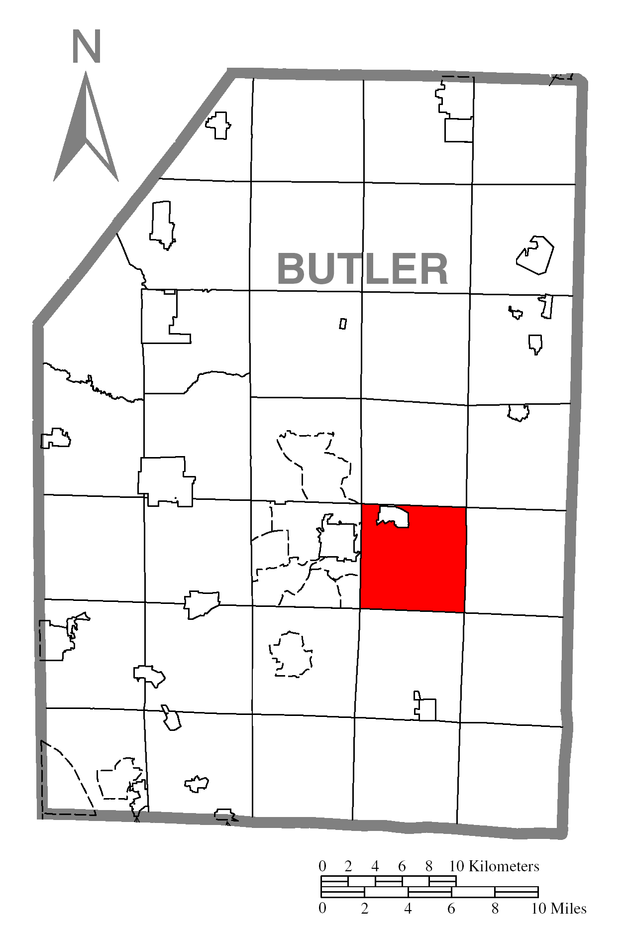 A map of Butler County showing Summit Township, Pennsylvania (alternate) highlighted on the map.